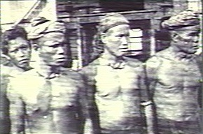 Sarawak: four Trusan Murut tribesmen (left) and Land Dayaks of the Upper Sadong River (right). Photographs. Iconographic Collections Keywords: Tribe; Population Groups; Borneo; Tribal; Charles Hose; Anthropology; Malaysia; Ethnography